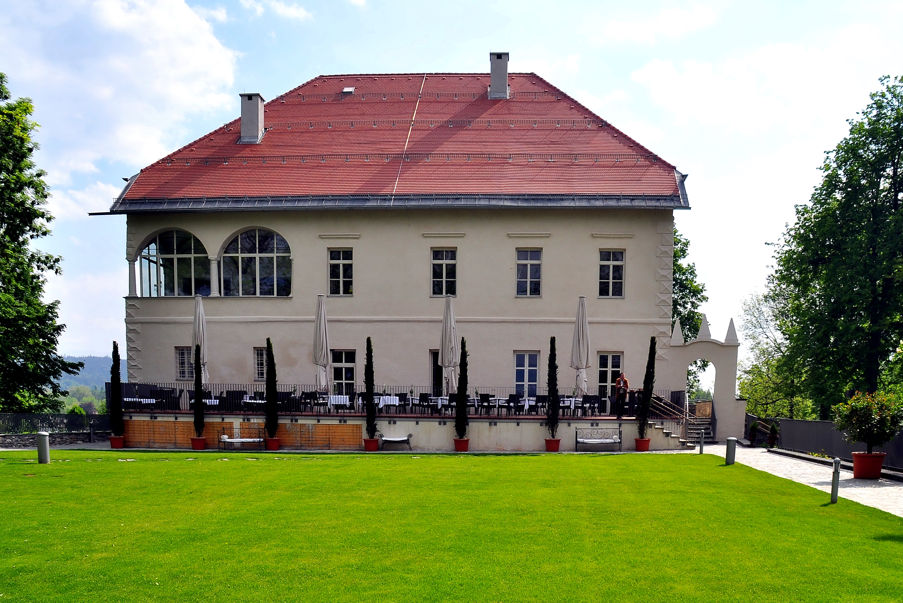 West view at the castle Maria Loretto in the 12th district “Sankt Martin”, municipality Klagenfurt am Wörther See|Klagenfurt on the Lake Woerth , Carinthia / Austria / EU